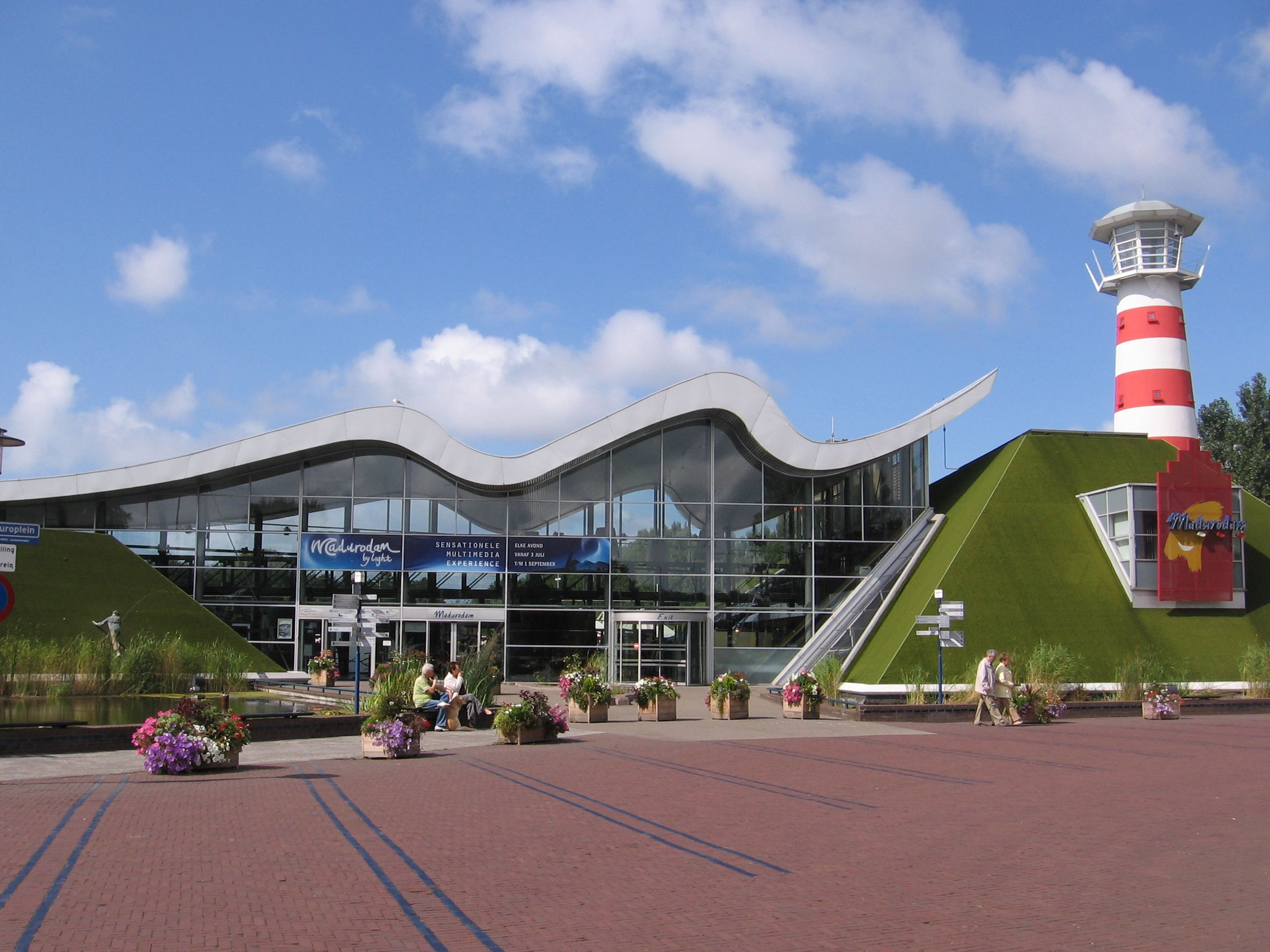 Madurodam miniature city in the Netherlands - main entrance.